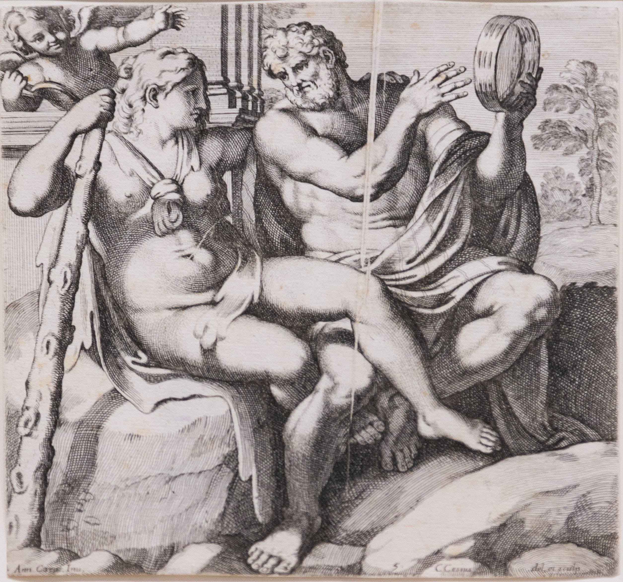 Heracles and Omphale, engraving from Carlo Cesio, after Annibale Carracci, um 1657, Galleria Farnese, Palazzo Farnese, Rome